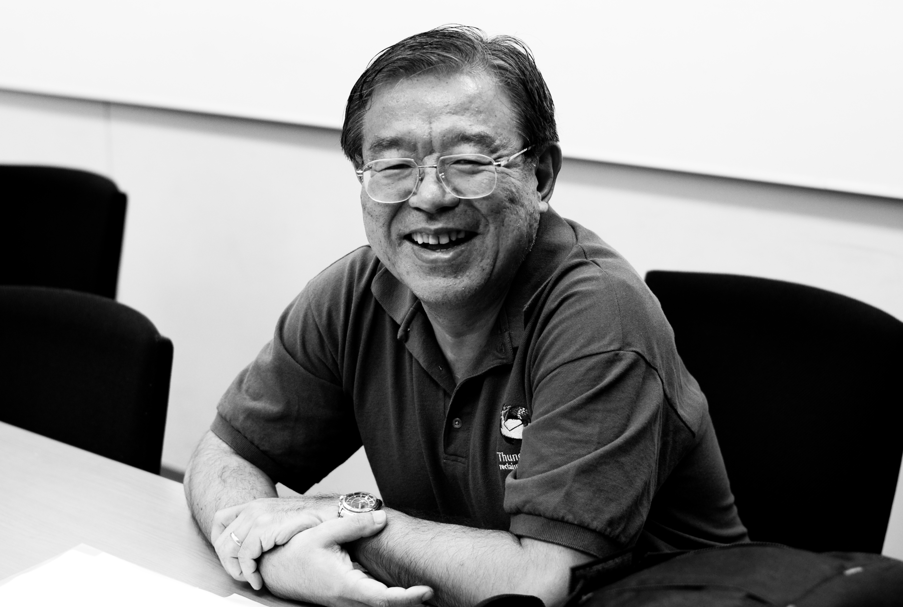 Jun Murai